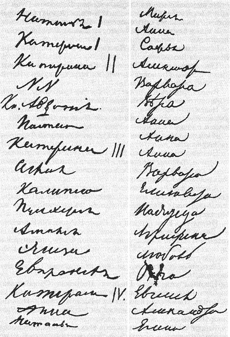 «The Donzhuansky list» A.S.Pushkin from Elizabeth Nikolaevna Ushakova's album. 1829.